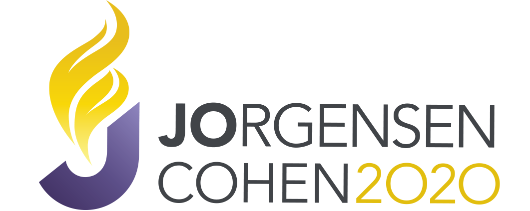 Official logo for Jo Jorgensen's 2020 presidential campaign. Defunct as of July 2020, when it was replaced by File:Jo Jorgensen 2020 campaign logo 2.png.